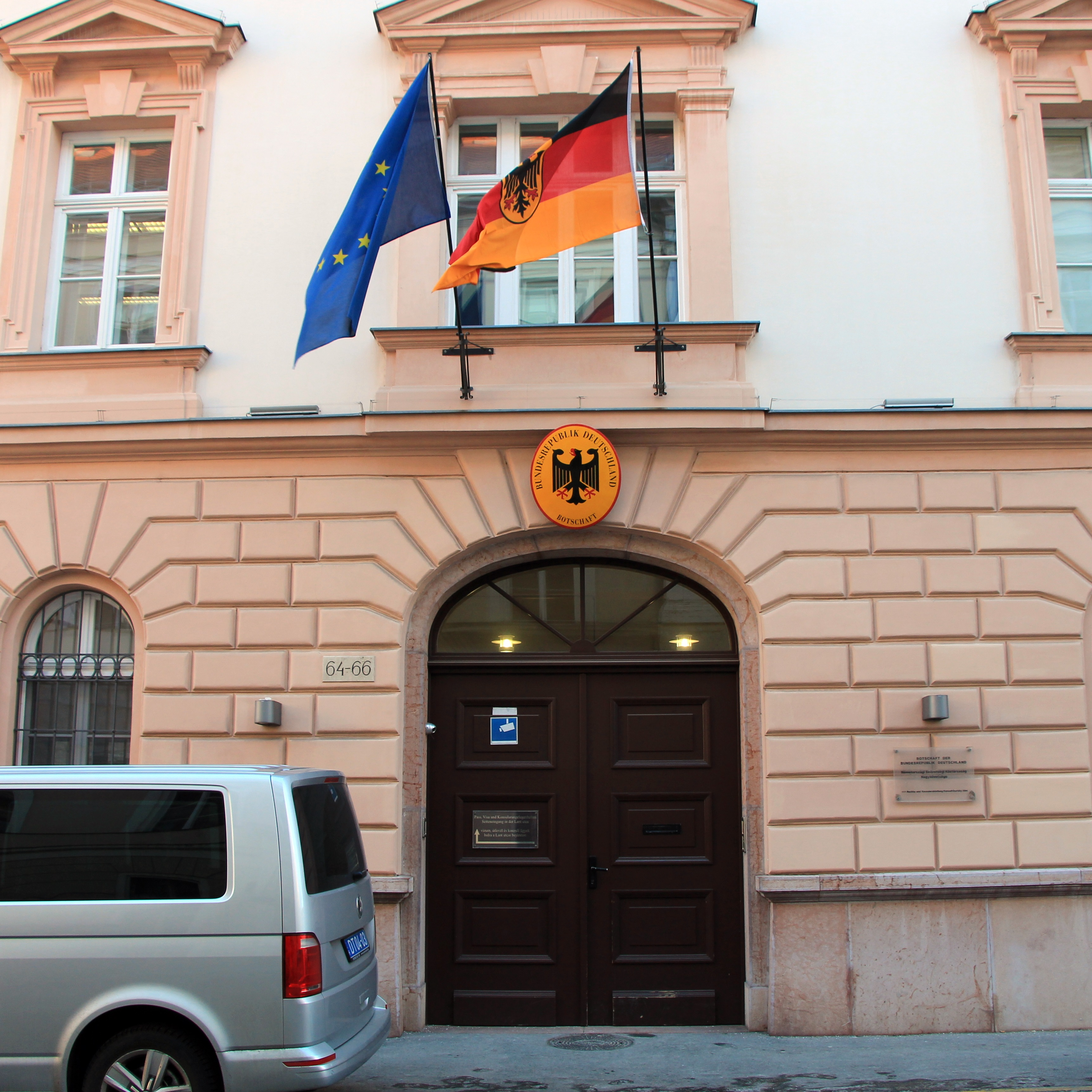 German embassy in Hungary; Budapest, Hungary - pictured in January 2017